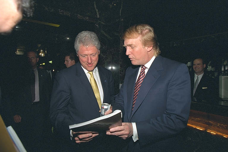 Donald Trump with Bill Clinton at Trump Tower in 2000